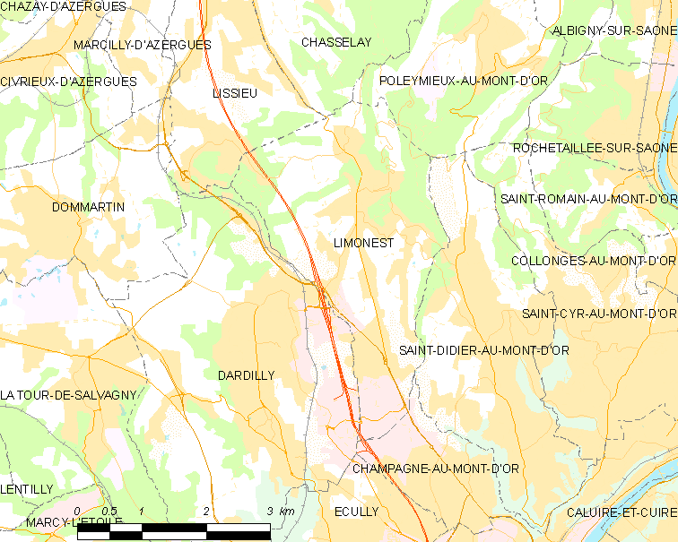 Map of French municipality